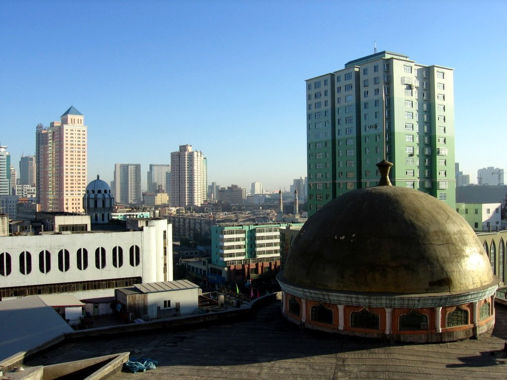 Urumqi is the capital of the Xinjiang Uygur Autonomous Region of the People's Republic of China.